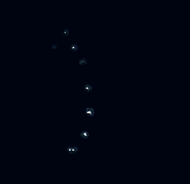 South Sandwich Islands fron The Space